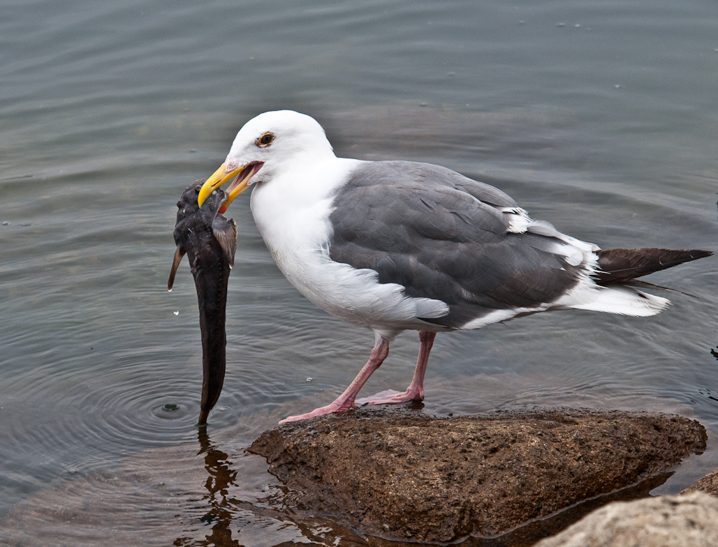 What a sight to see what this bird will eventually eat. Birds have a quadrate bone in their skull which will allow the mouth to expand to accommodate such a large meal. Special thanks for the ID from Rich Palmer who taught Zoology as a colleague @ Fresno City College. Unfortunately I did not take ichthyology and he sure did. Thanks so much, Rich!